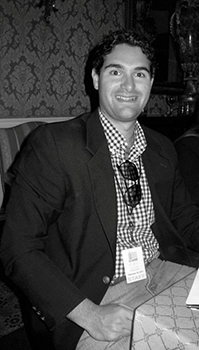 Blair Brandt, CEO & Founder of Next Step Realty New York, LLC. in Palm Beach, Florida in 2012